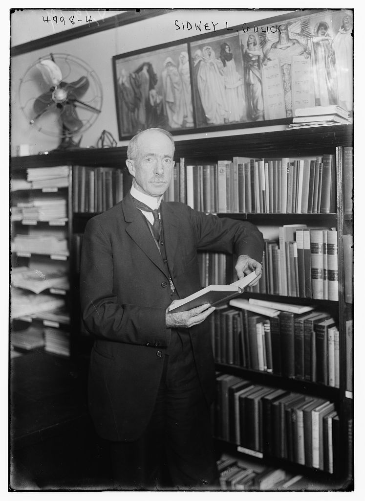 Sidney Lewis Gulick in 1919